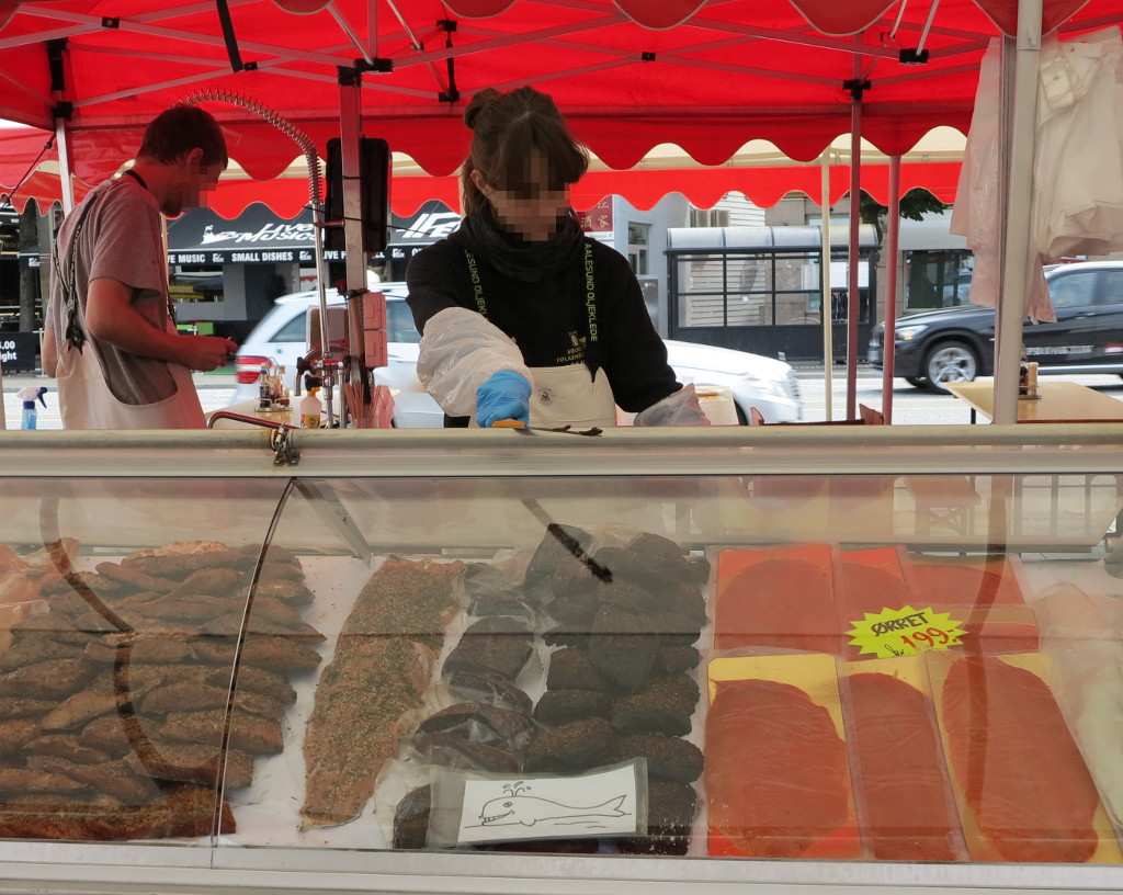 Whale meat sold at the Bergen fish market 2012